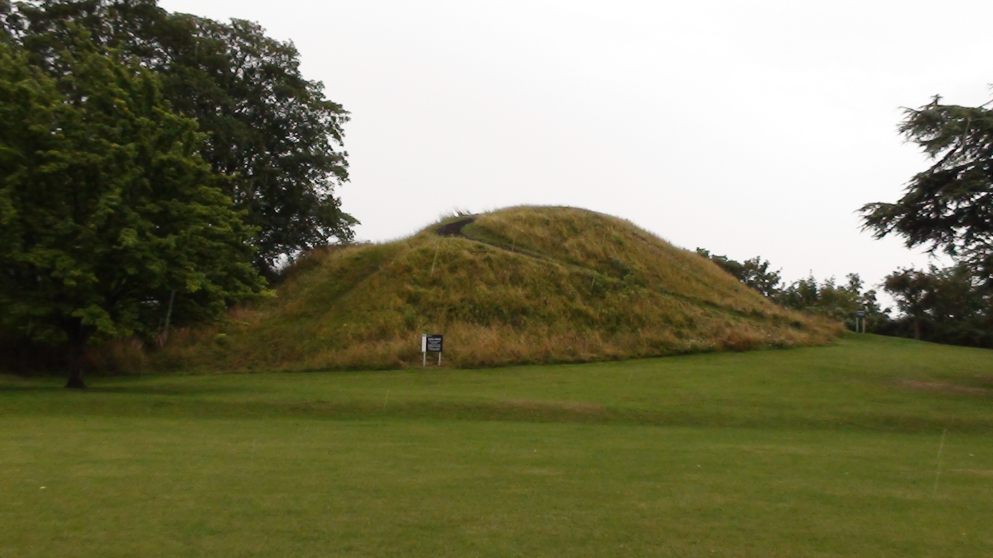 The remnants of Cambridge Castle motte.